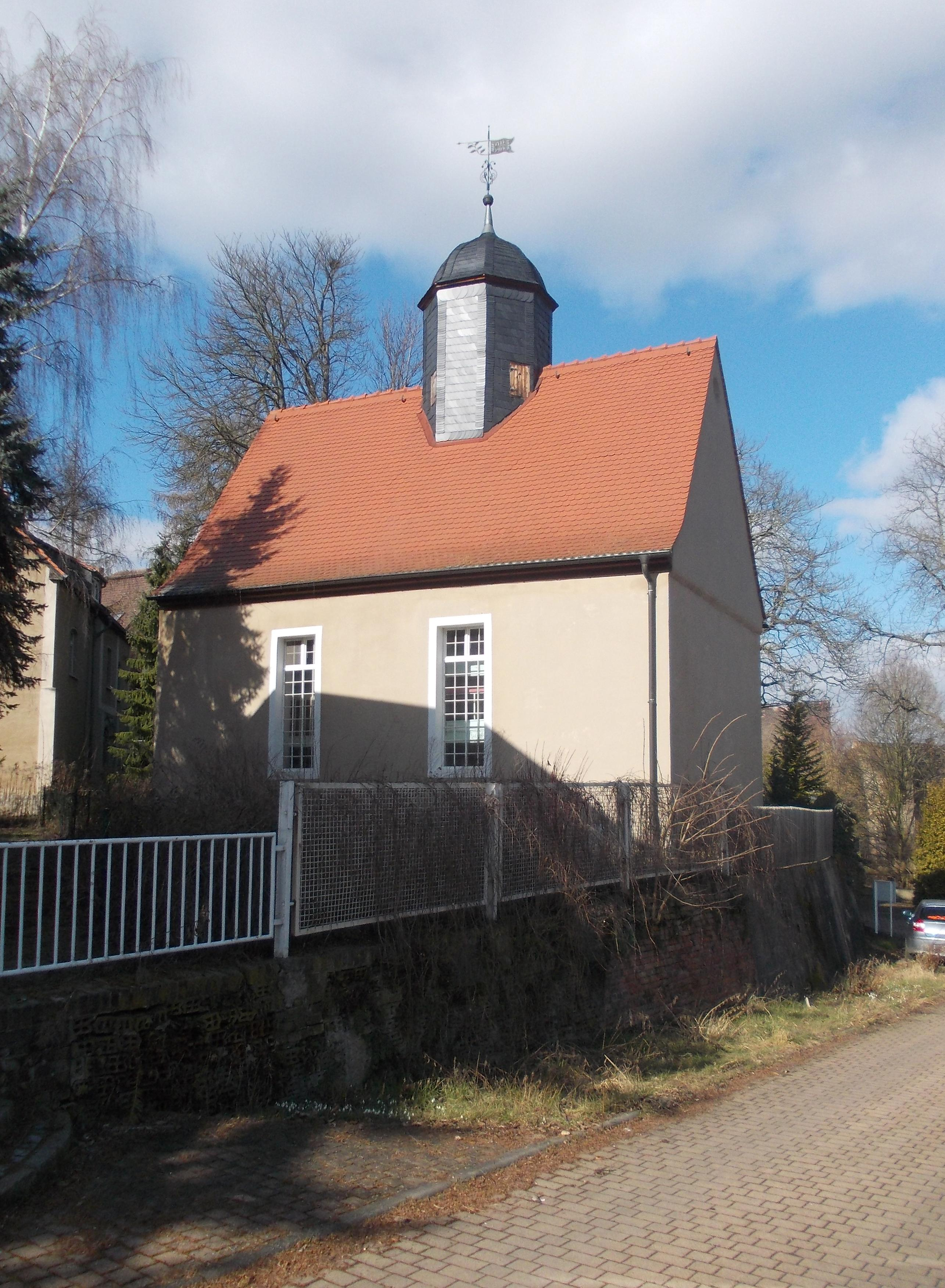 Gröben church (Teuchern, district: Burgenlandkreis, Saxony-Anhalt)